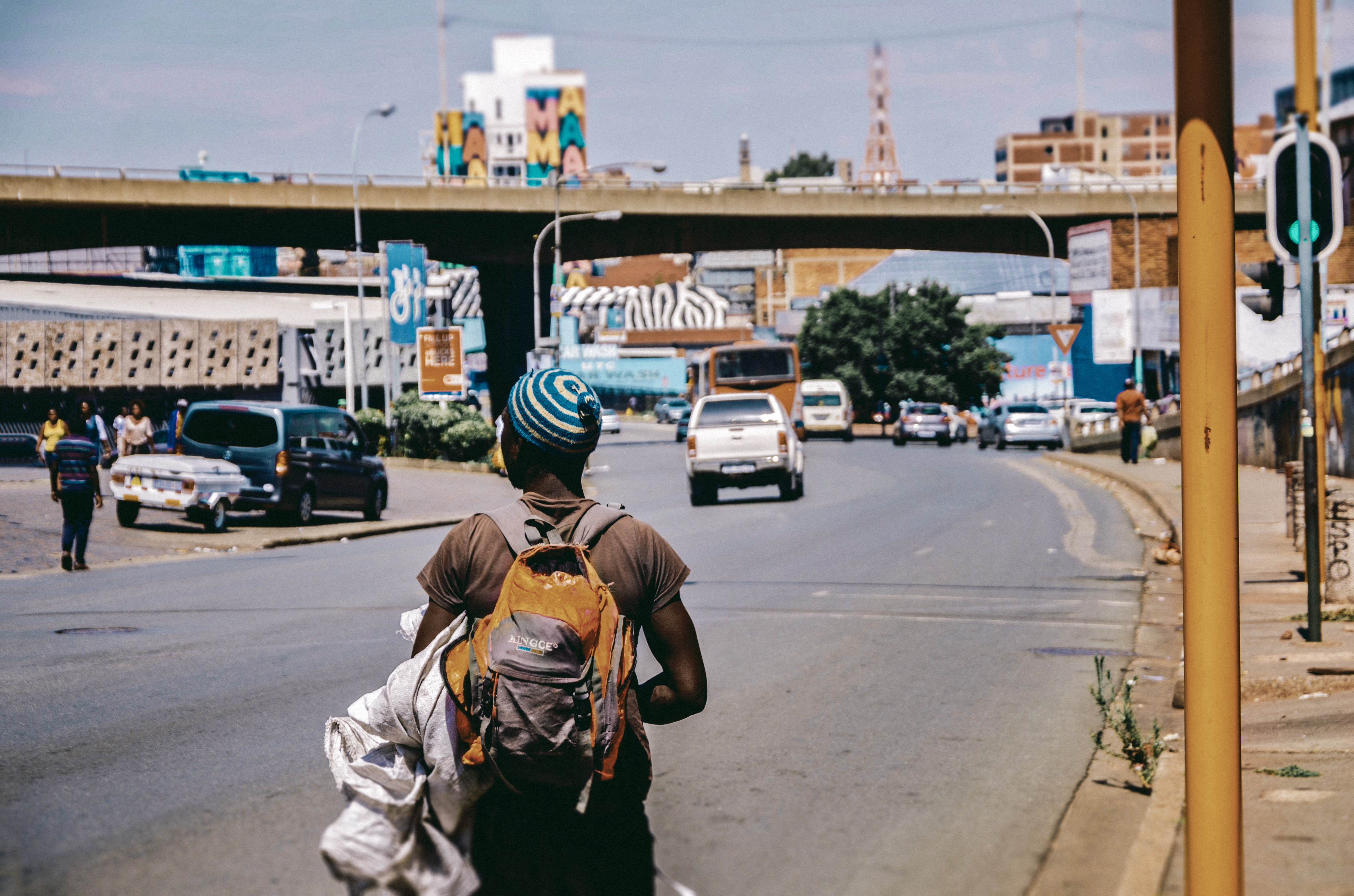 Hitchhiking is not prohibited in South Africa but there are still people that cannot afford public transportation and have no other means to travel other than walking or asking for a lift. This is an image with the theme "Africa on the Move or Transport" from: South Africa